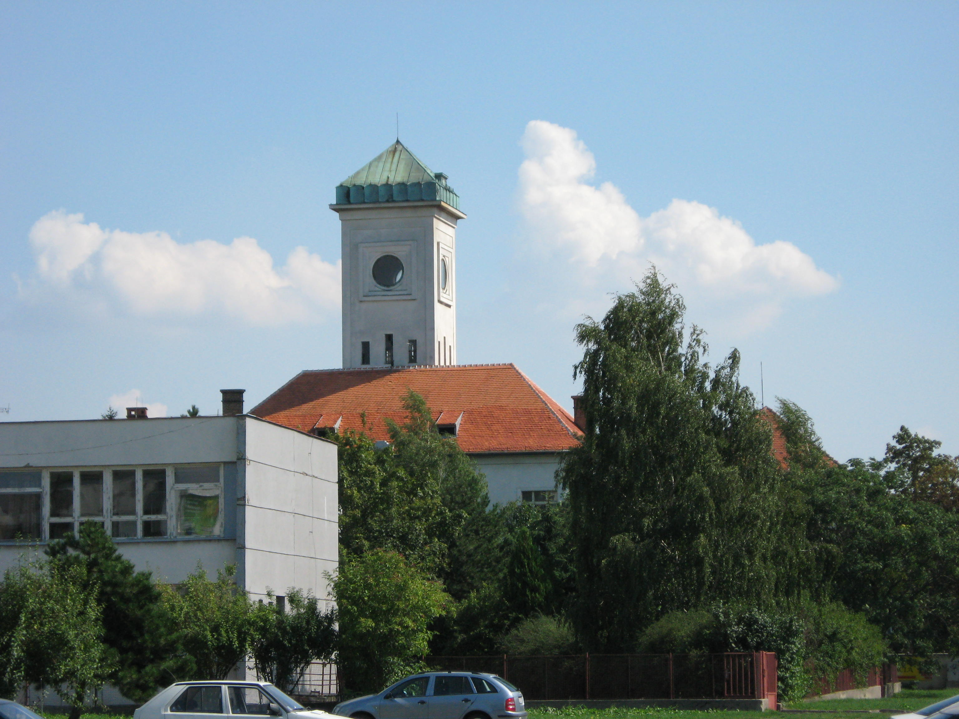 The Old Hospital in Nové Zámky